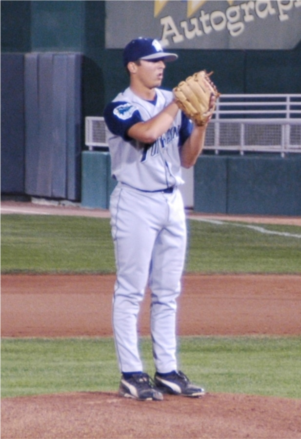 Brandon Kintzler pitching for the Fort Wayne Wizards vs. the Lansing Lugnuts (September 1, 2005)